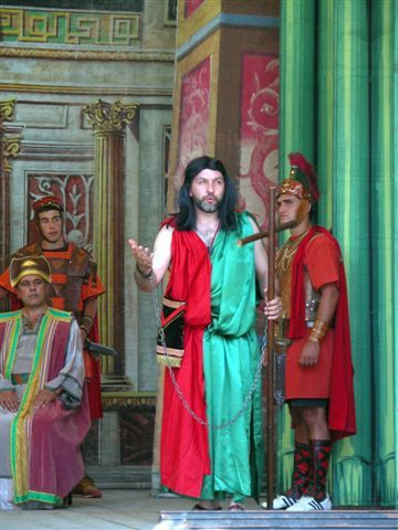 San Bartolomeo Drama